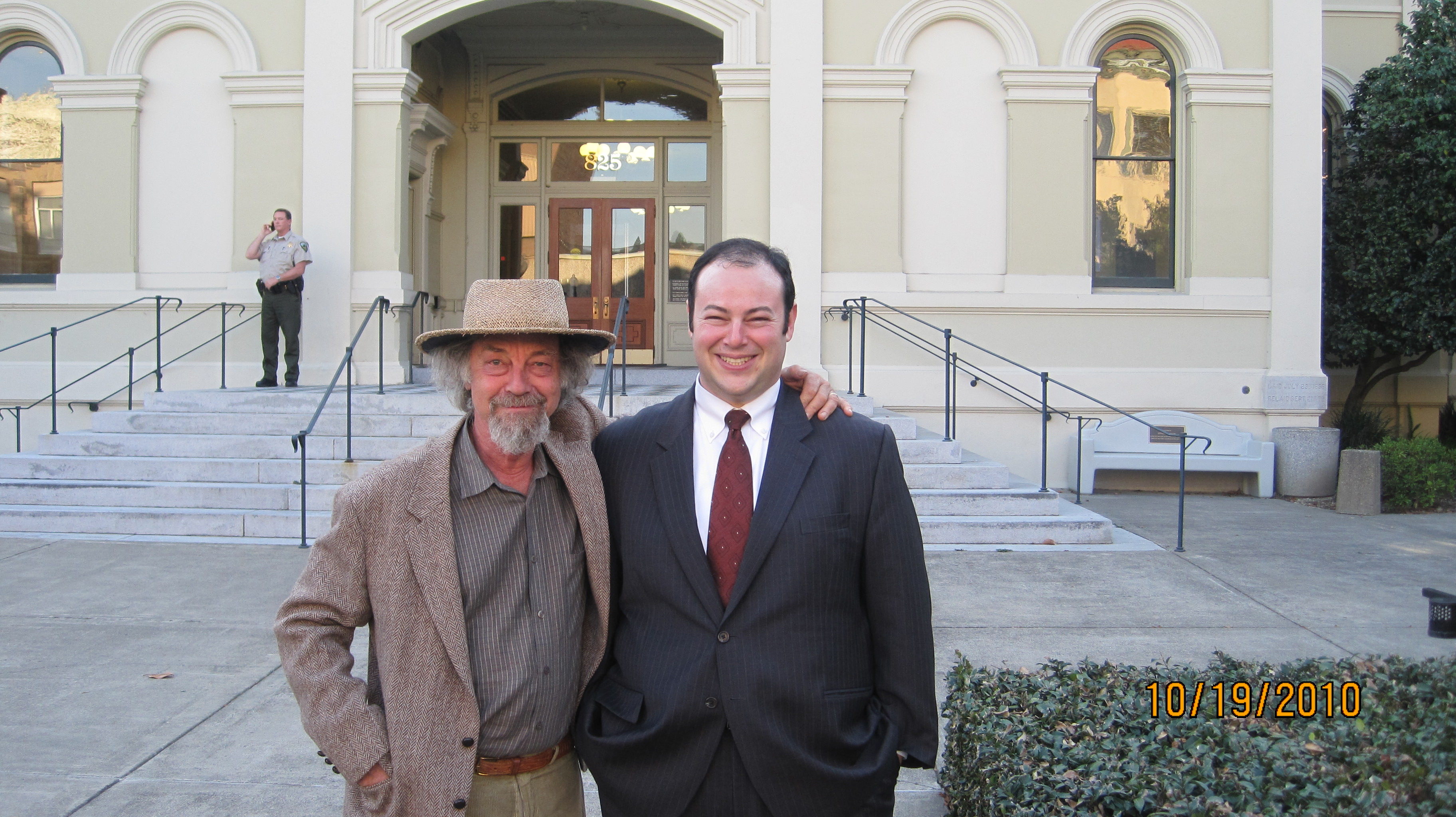 Fred and Abe Gardner in front of the Historic Napa County Superior Courthouse (prior to 2013 earthquake damage)